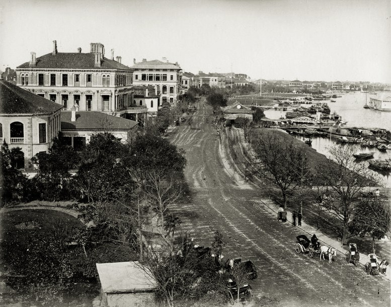 The Bund, Shanghai, circa 1890s. Albumen photograph